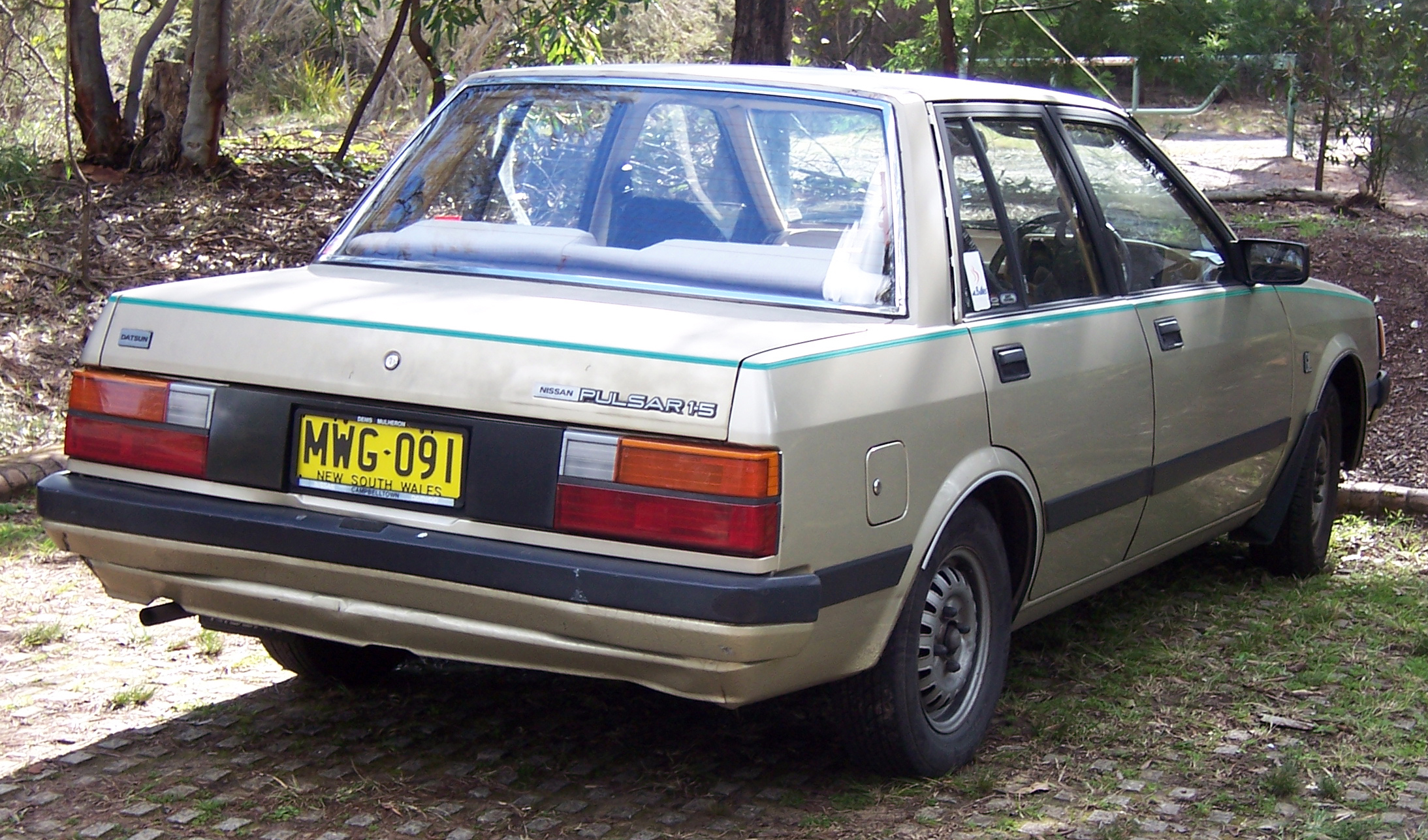 1983 Nissan Pulsar (N12) GL sedan. Photographed in Audley, New South Wales, Australia.